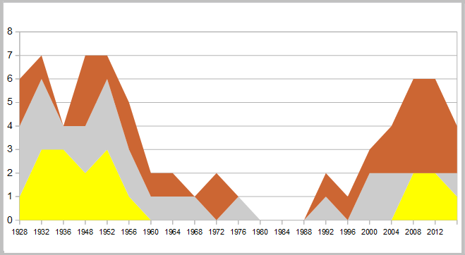 Olympic Summer Medals Argentina 1924-2012